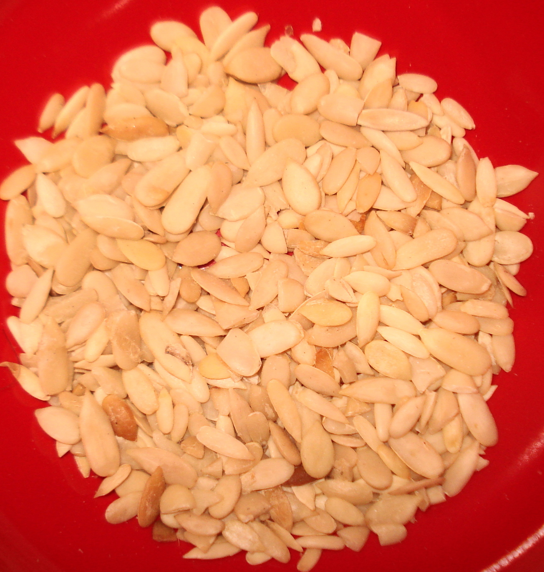 Chaar Magaz, Chahar Magaz, Chaharmagaz